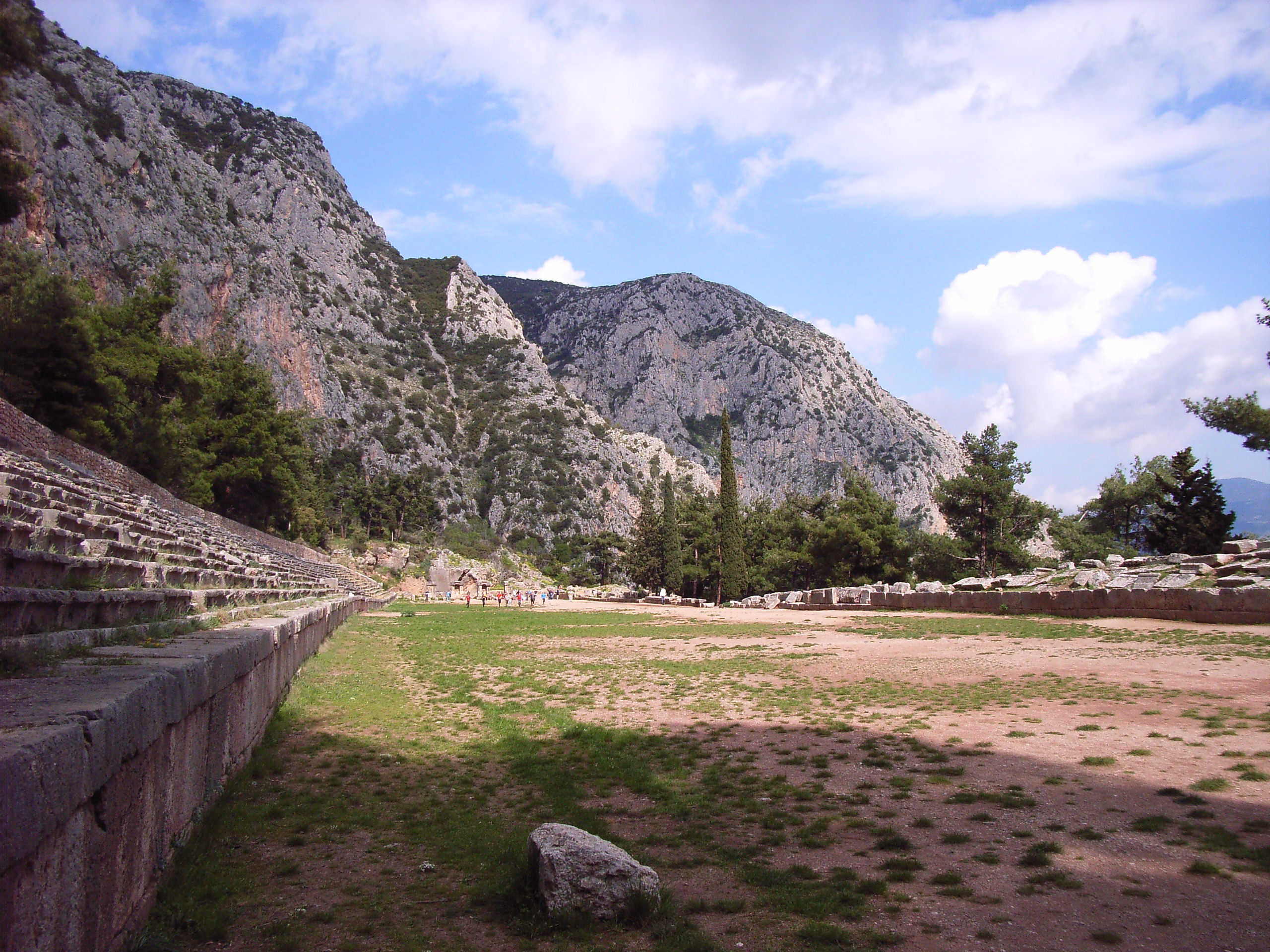 Ancient Delphi, Greece